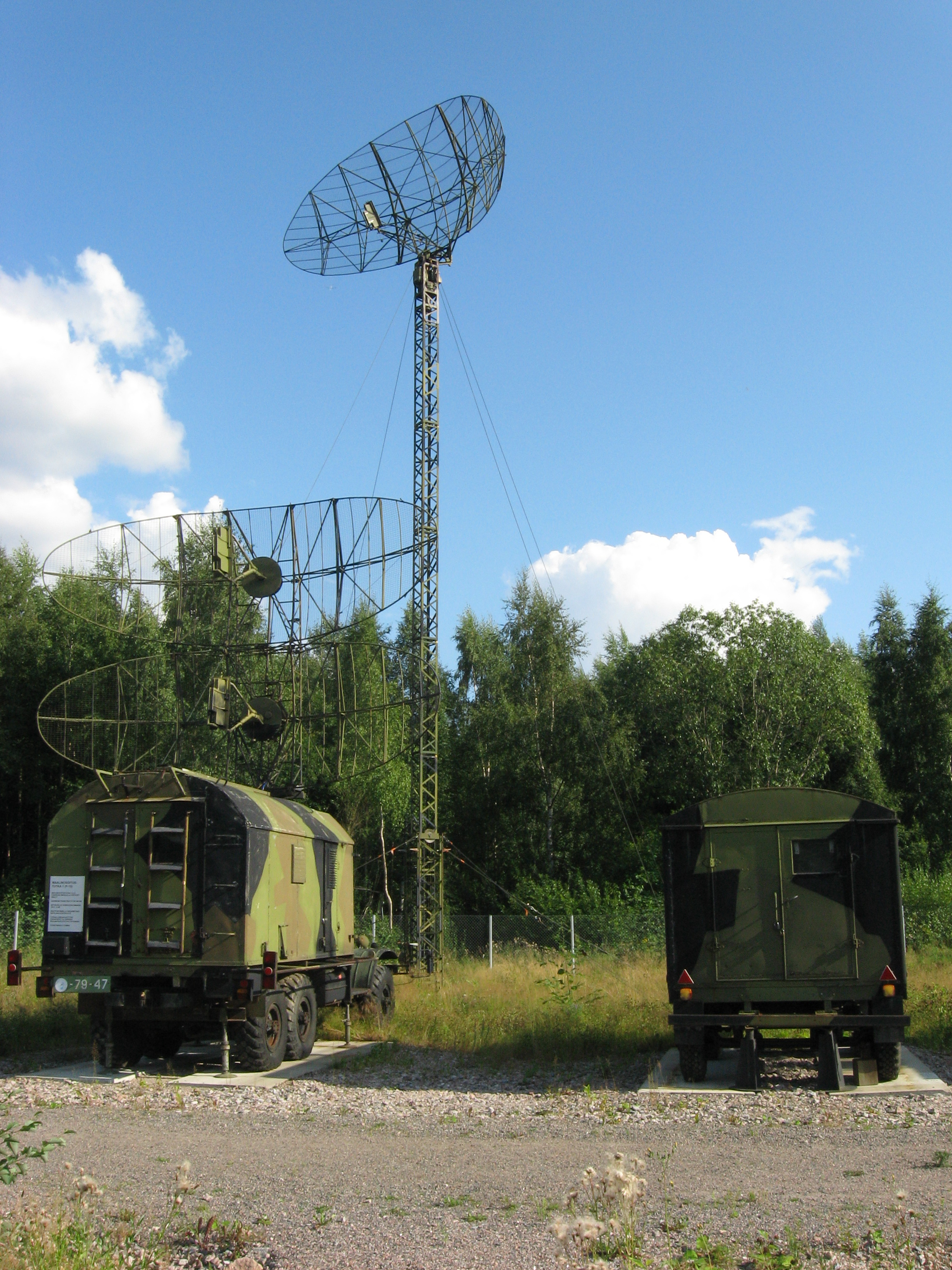 P-18 or 1LR13I or "Spoon Rest D" early warning radar P-15 close-range dish and control trucks at Ilmatorjuntamuseo, Tuusula, Finland.